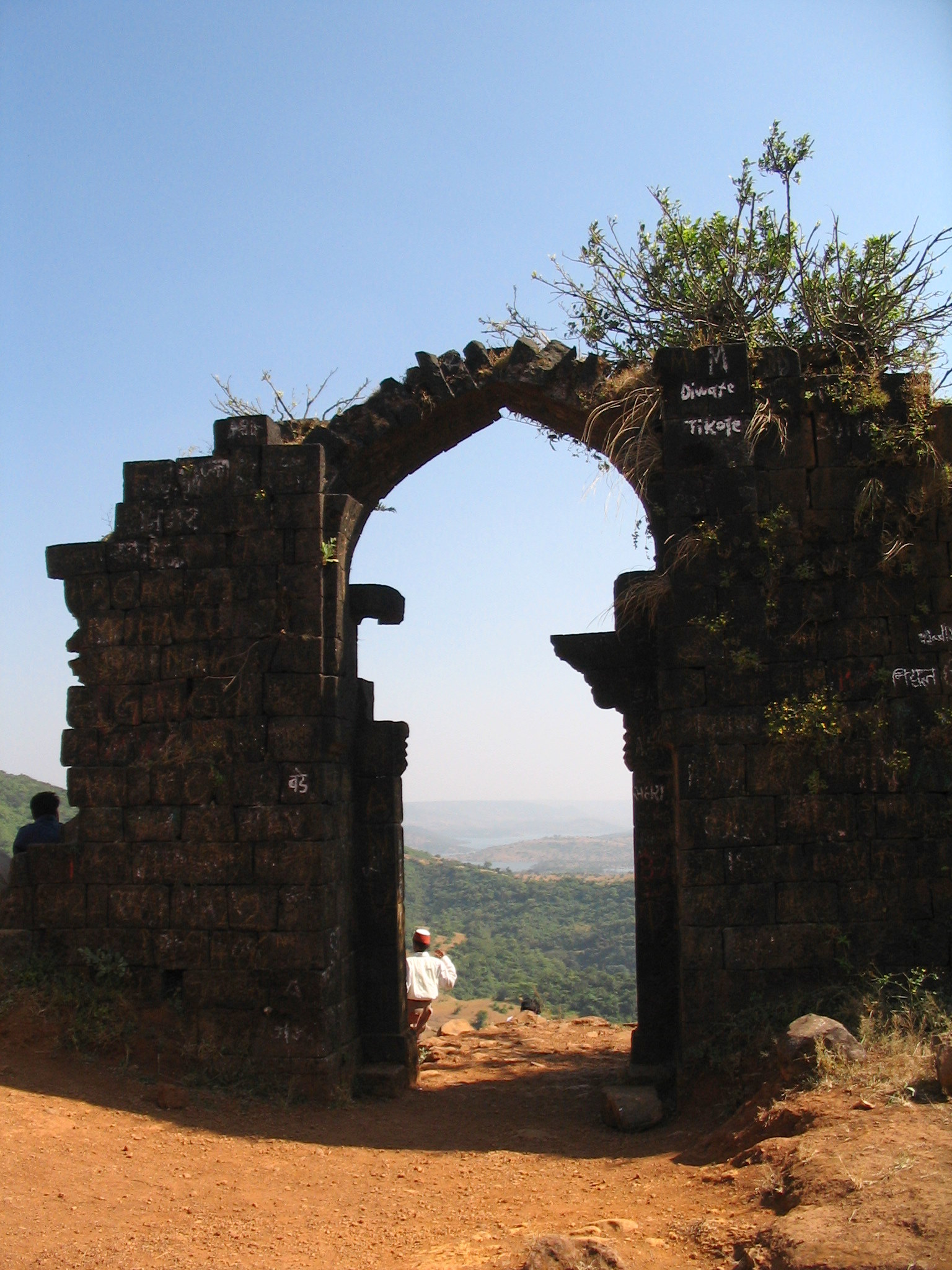 Ruins of Vishalgad Fort, Maharashtra, India